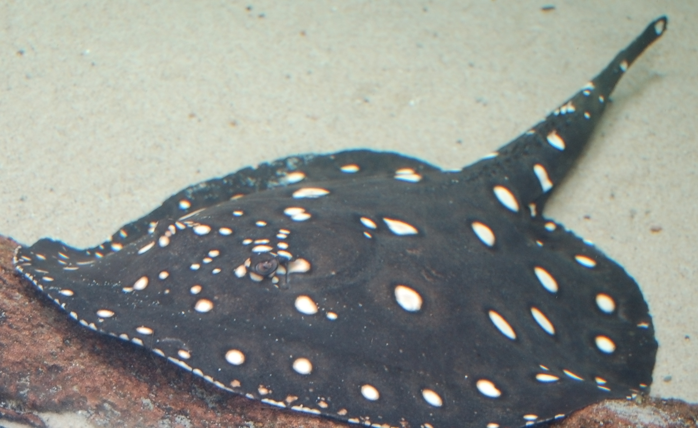 A photograph of a White-blotched River Stingrayen (Potamotrygon leopoldi en ). Photo taken at the PPG Aquarium in the Pittsburgh Zoo.